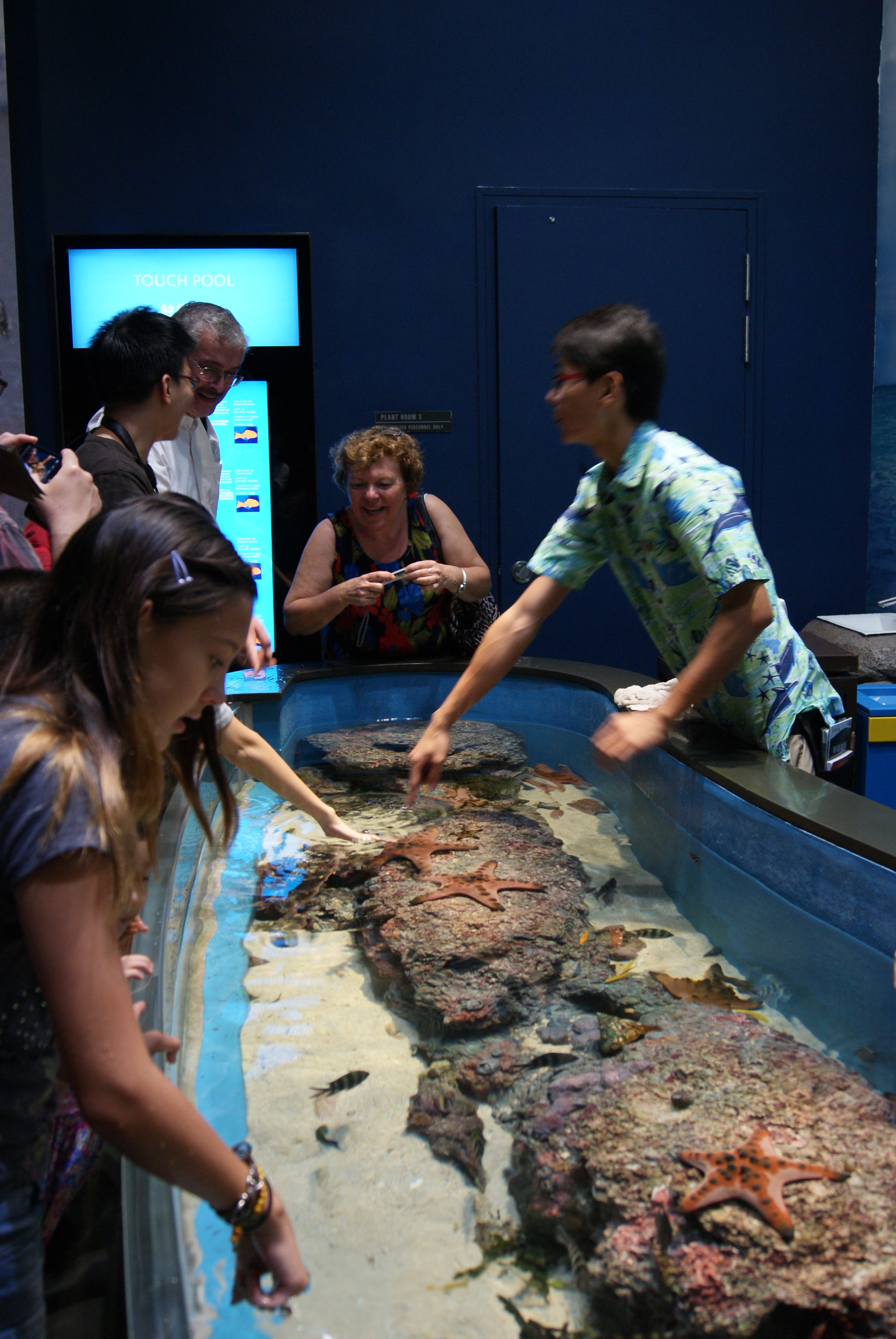 The Discovery Touch Pool in the Strait of Malacca and Andaman Sea section of the S.E.A. Aquarium in the Marine Life Park at Resorts World Sentosa, Singapore.